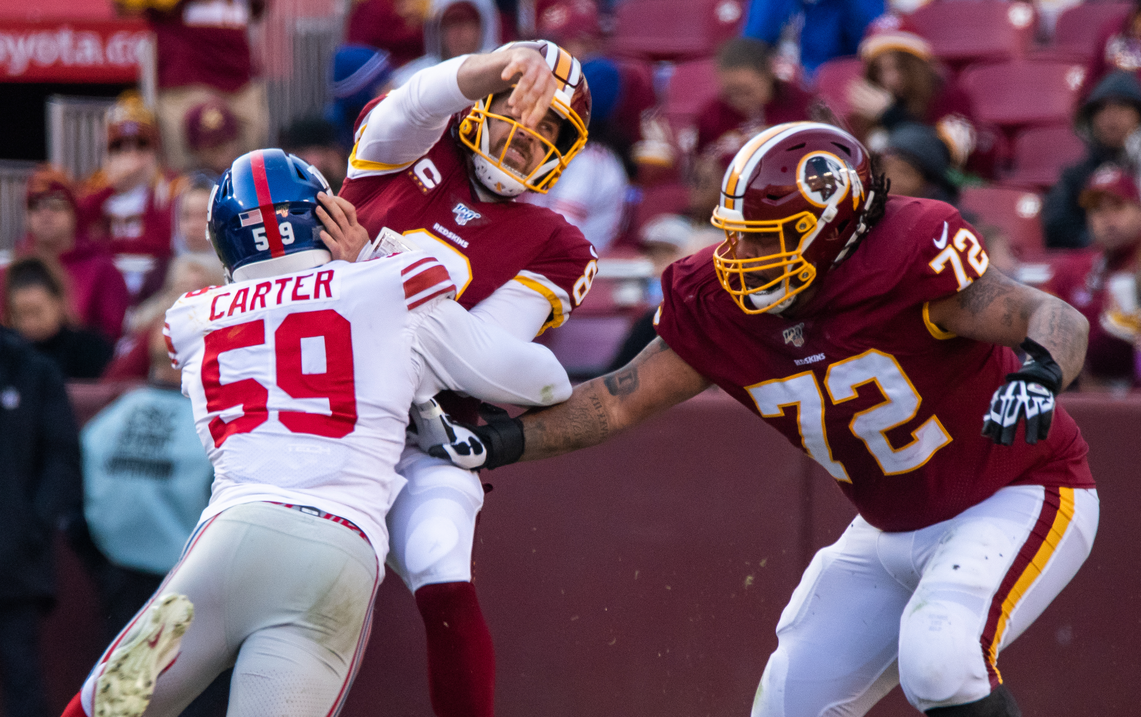 In 2019